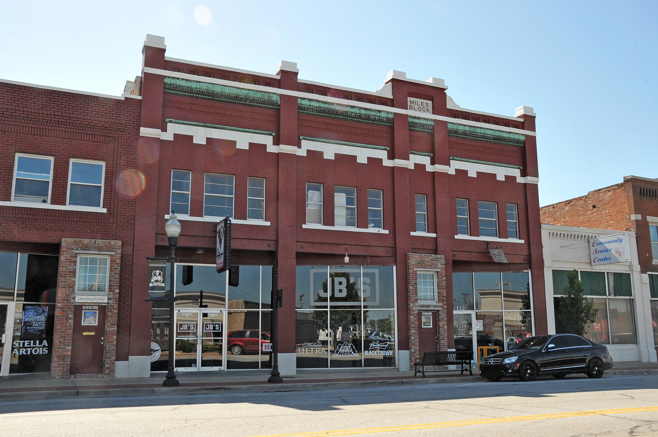 MILES BLOCK DATING FROM CIRCA 1902 OR EARLIER. THIS IS A KEY STRUCTURE IN THE DISTRICT